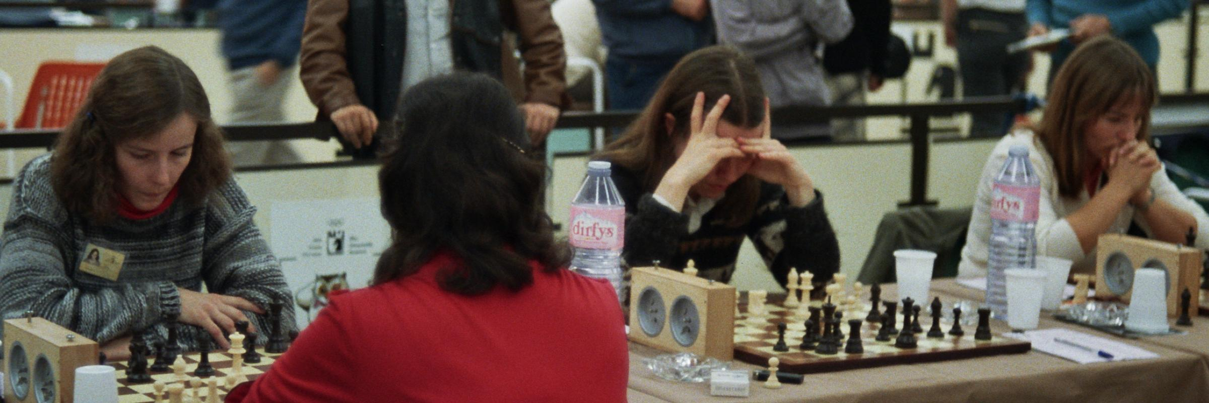 Barbara Hund, Gisela Fischdick and Stepanka Vokralova, Chess Olympiad 1984 in Thessaloniki, Photographer Gerhard Hund.